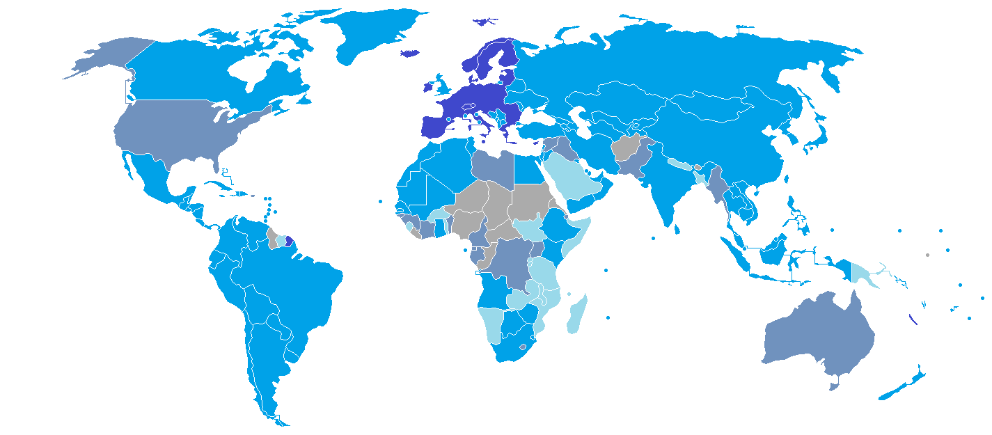 Map showing the visa requirements for holders of Hungarian diplomatic passports. European Union (unlimited access) Visa-free Visa on arrival Pre-arrival Internet registration required (ESTA, eVisitor) Visa required